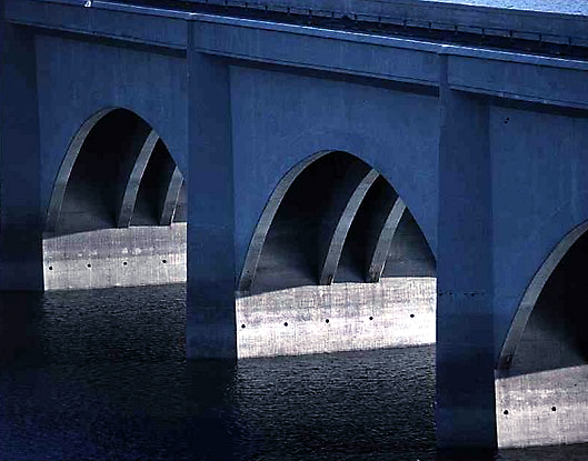 Arches of the Ashopton Viaduct, which crosses an arm of the Ladybower Reservoir in Derbyshire, England.